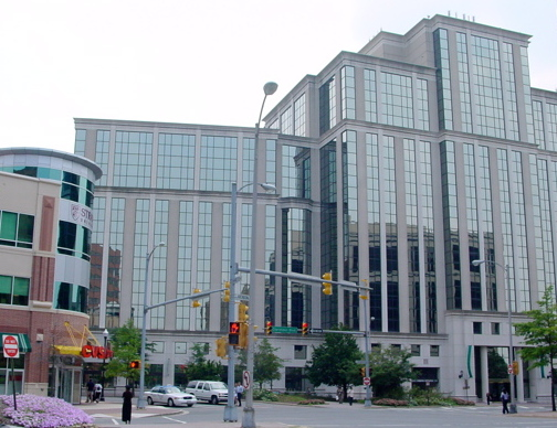 Courthouse in Clarendon Arlington County, Virginia.DSC05155